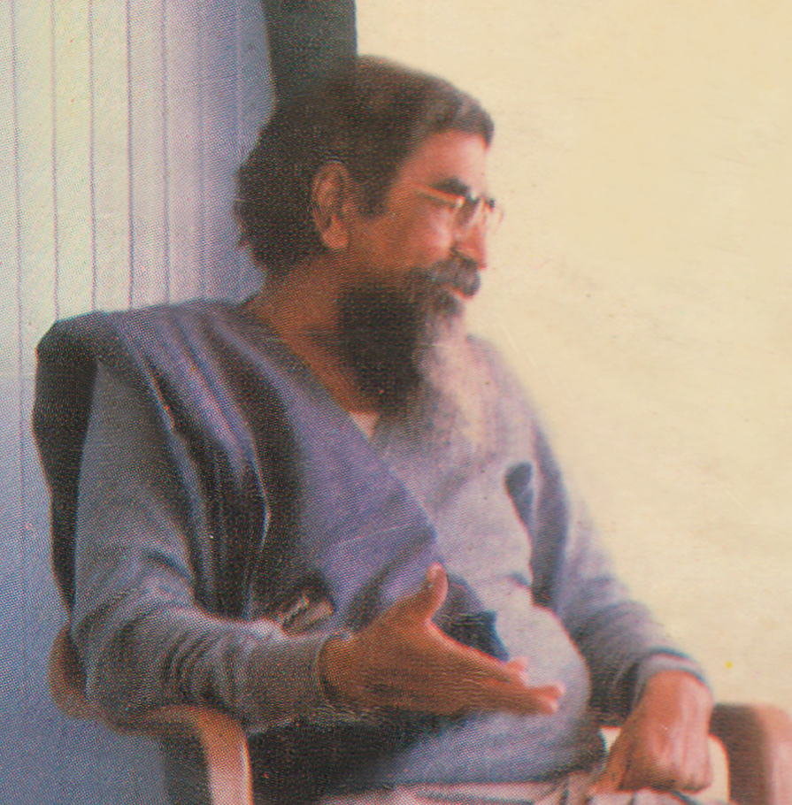 Perunchithiranar, 20th century poet of Tamil Nadu in his home.His writings are nationalized by Govt of Tamil Nadu.